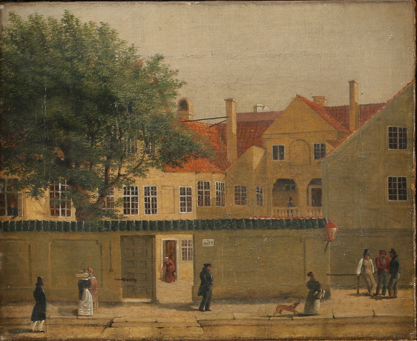 The now demolished Collin House in Bredgade in Copenhagen, Denmark